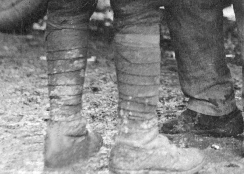 Particular of puttees worn by WWI Soldiers.